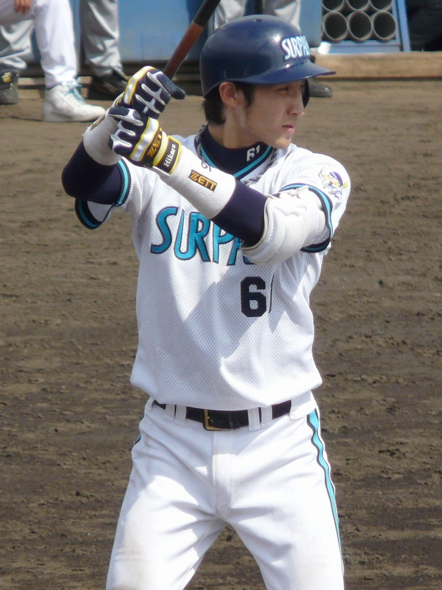 Hikaru Ito, catcher of the Surpass, at Maishima Baseball Stadium.